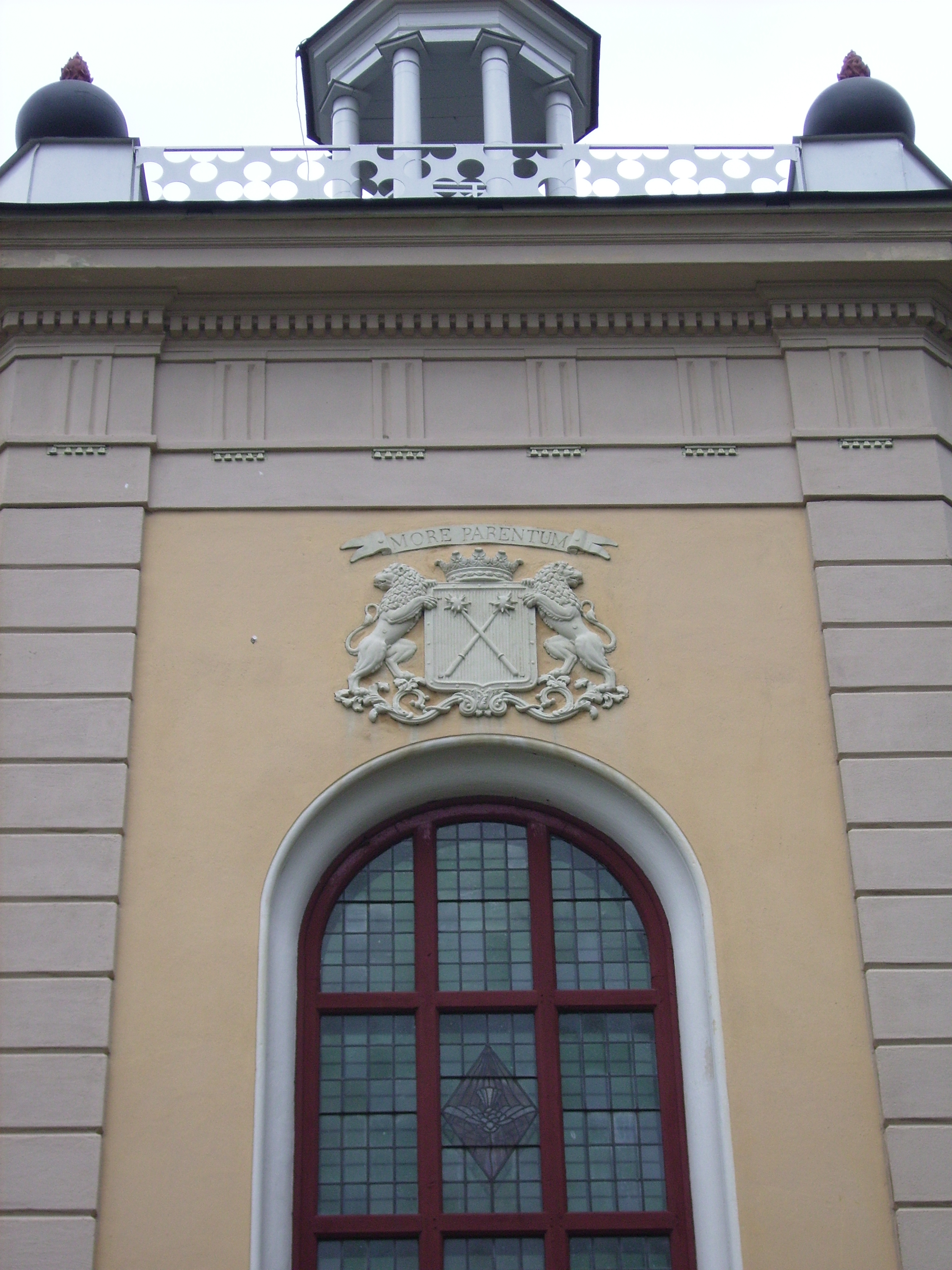 More Parentum. Motto of von Stedingk